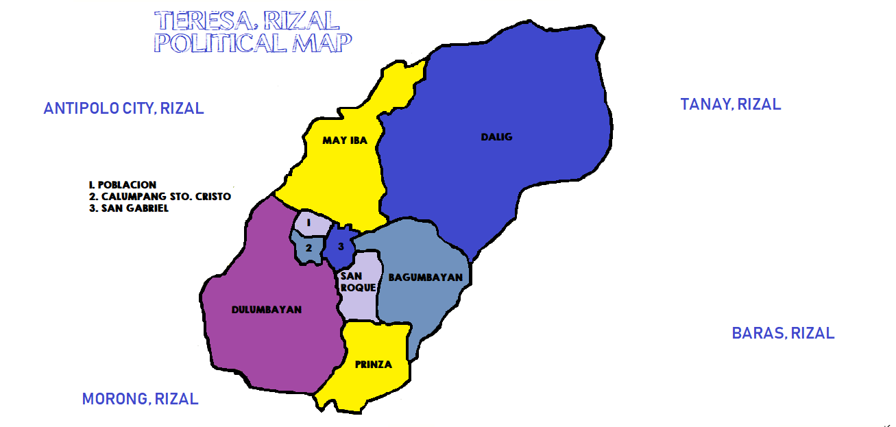 The Political Map of Teresa, Rizal (Subject to the correction by Teresa LGU). It shows the Barangays in Teresa, Rizal and the adjacent Municipalities/cities in it.